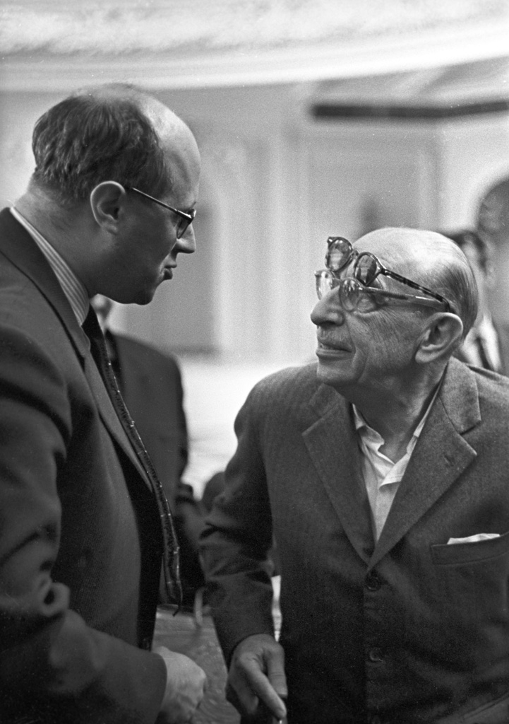 “Composer Igor Stravinsky and cellist Mstislav Rostropovich”. Igor Stravinsky, right, composer and conductor, and cellist Mstislav Rostropovich during a conversation.